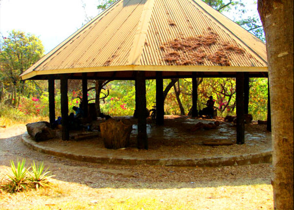 The Carving Centre